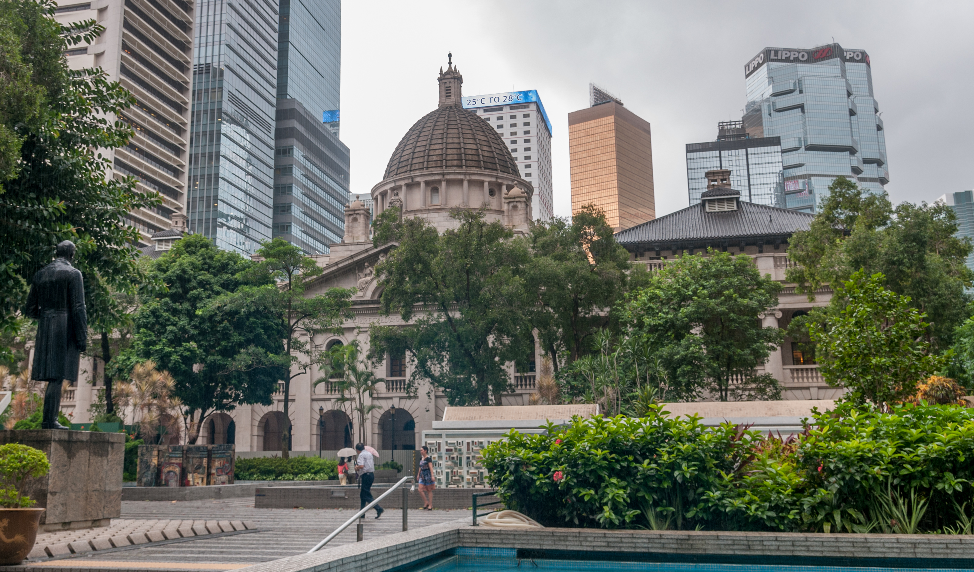 Hong Kong street